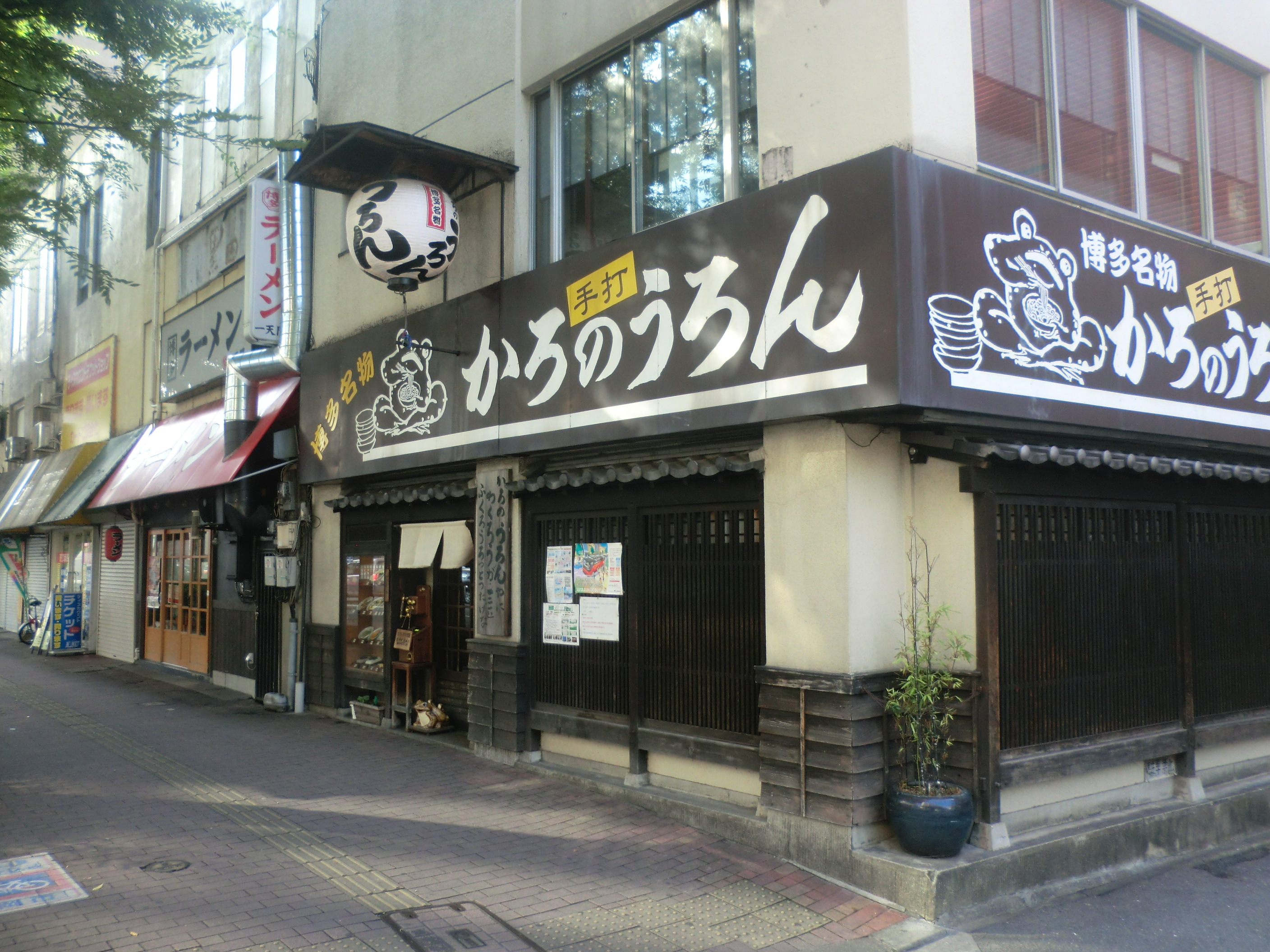 "Karo no uron", The oldest udon shop in Fukuoka,Japan.